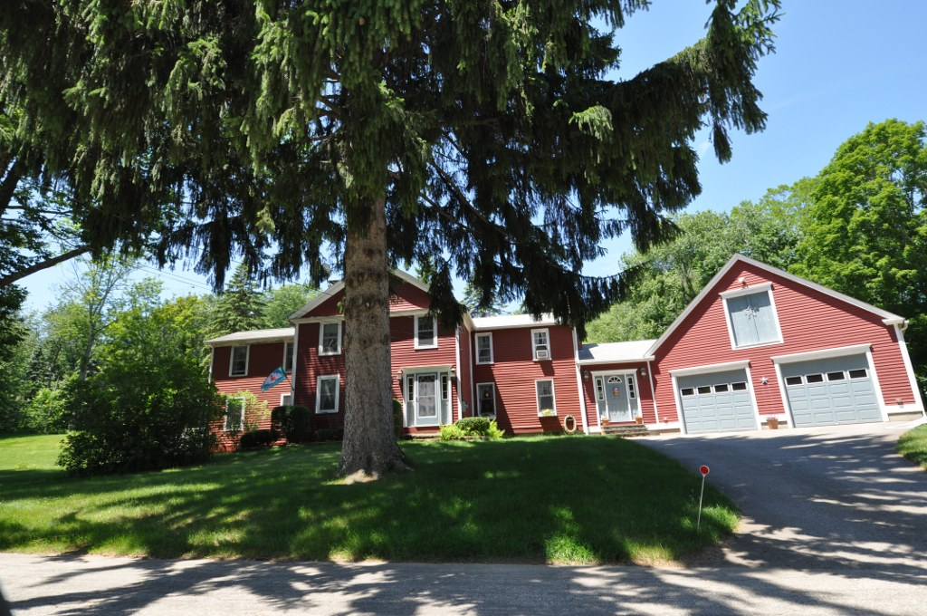 A house in the rural Quinebaug Valley Historic District of West Brookfield, Massachusetts.